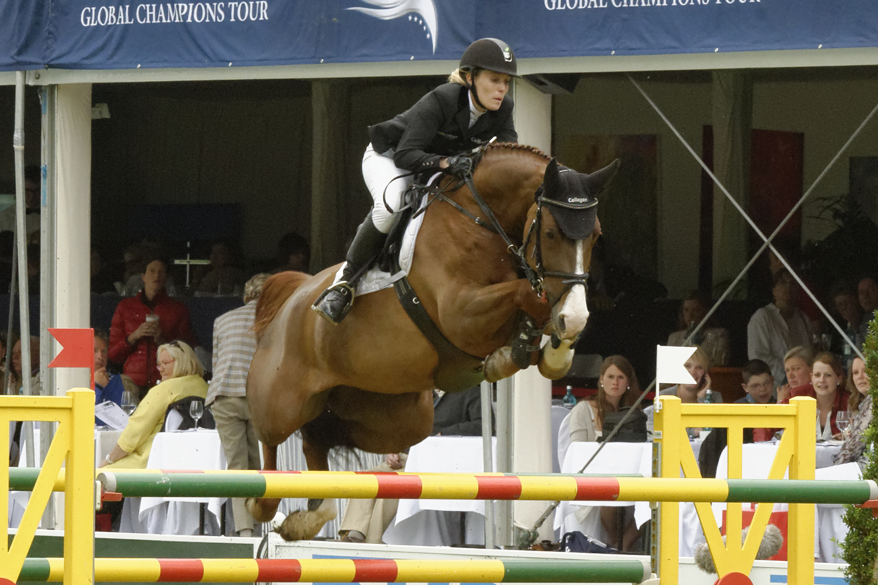 Internationales Pfingstturnier Wiesbaden 2013 The making of this document was supported by the Community-Budget of Wikimedia Germany.